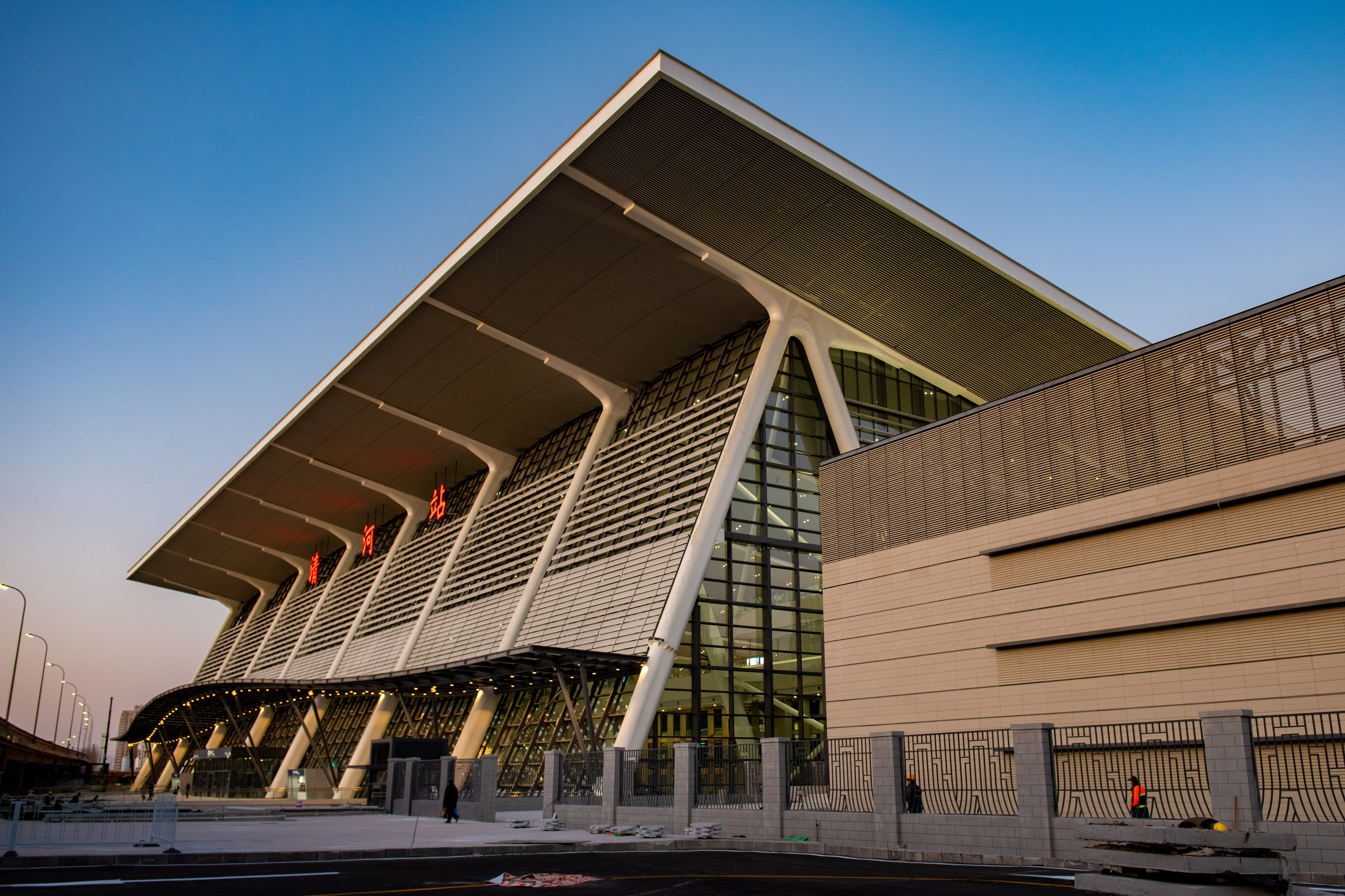 The entrance hall occupied the former bridge of Line 13.